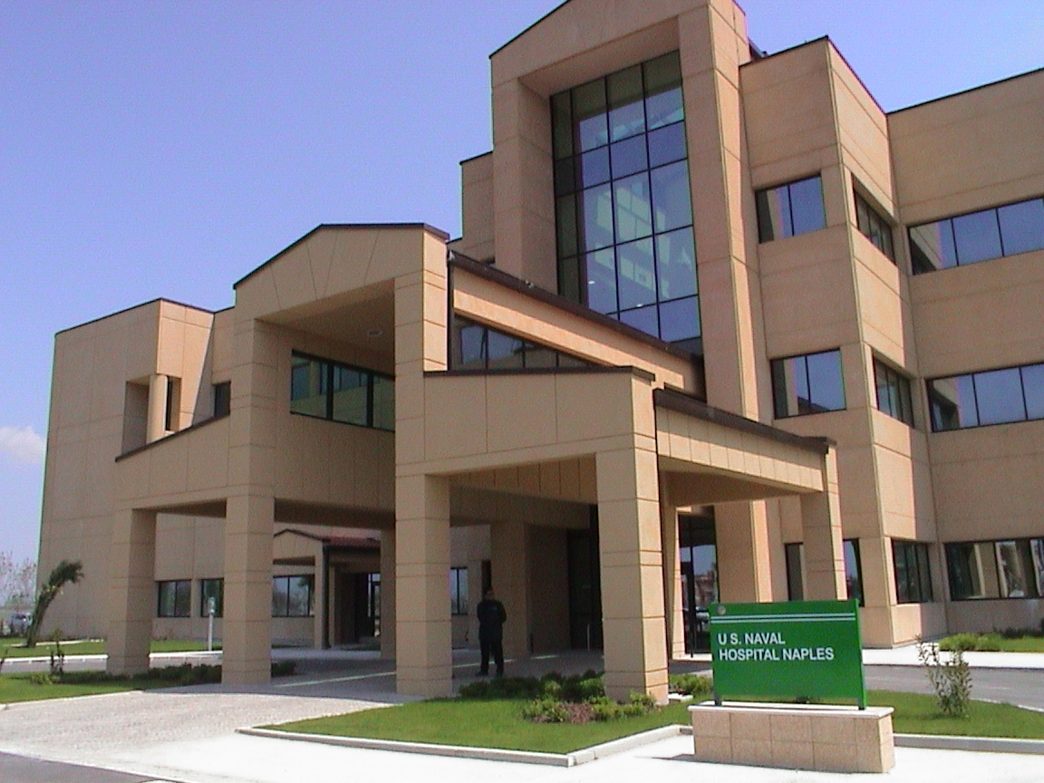 Naval Station Naples, Italy (Apr. 28, 2003) -- The Navy accepted the new U.S. Naval Hospital Naples, Italy from the developer April 23. The hospital staff is in the process of testing and training on new equipment in anticipation of the planned opening June 16. A ribbon-cutting ceremony is scheduled for June 20. U.S. Navy photo by Journalist 1st Class Joseph Kane. (RELEASED)